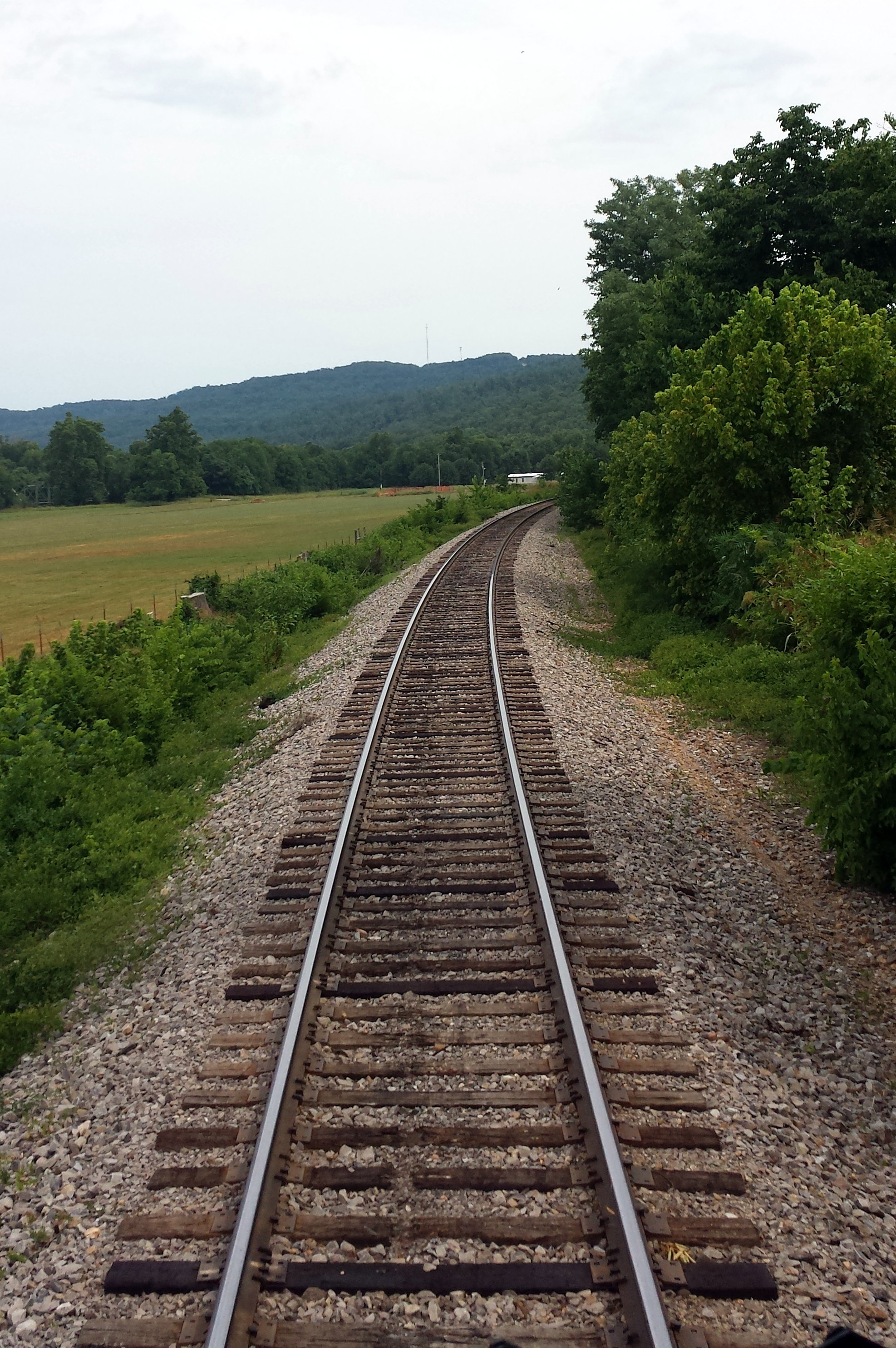 Looking down the tracks of the Arkansas/Missouri railroad in Washington County, AR